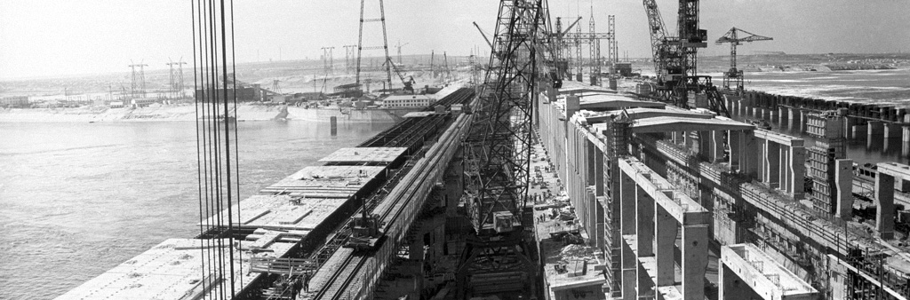 “Construction of Volga hydroelectric power station”. Construction of Volga hydroelectric power station (panoramic view. 1960).